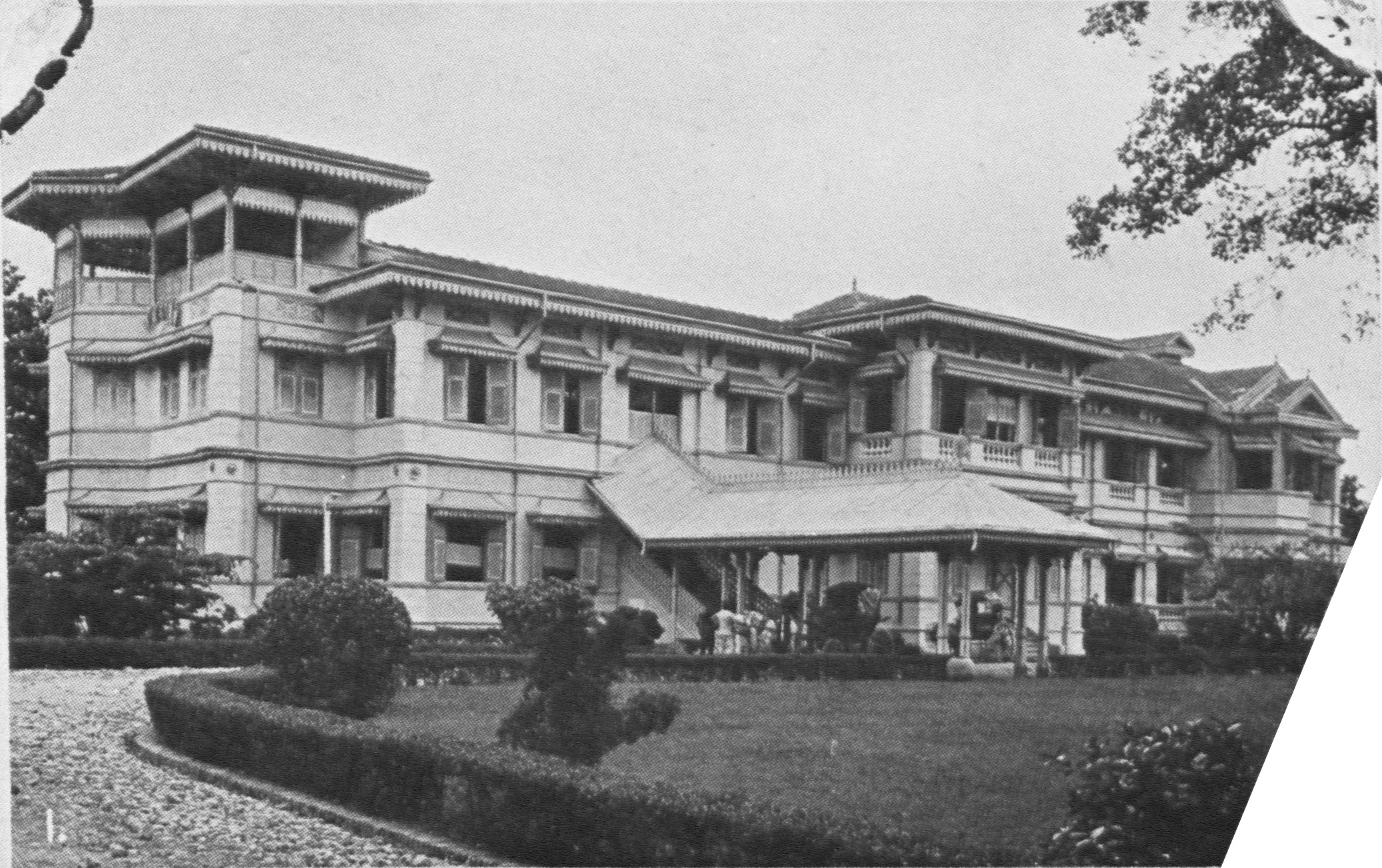 "The United Club" from Twentieth Century Impressions of Siam, p. 252.